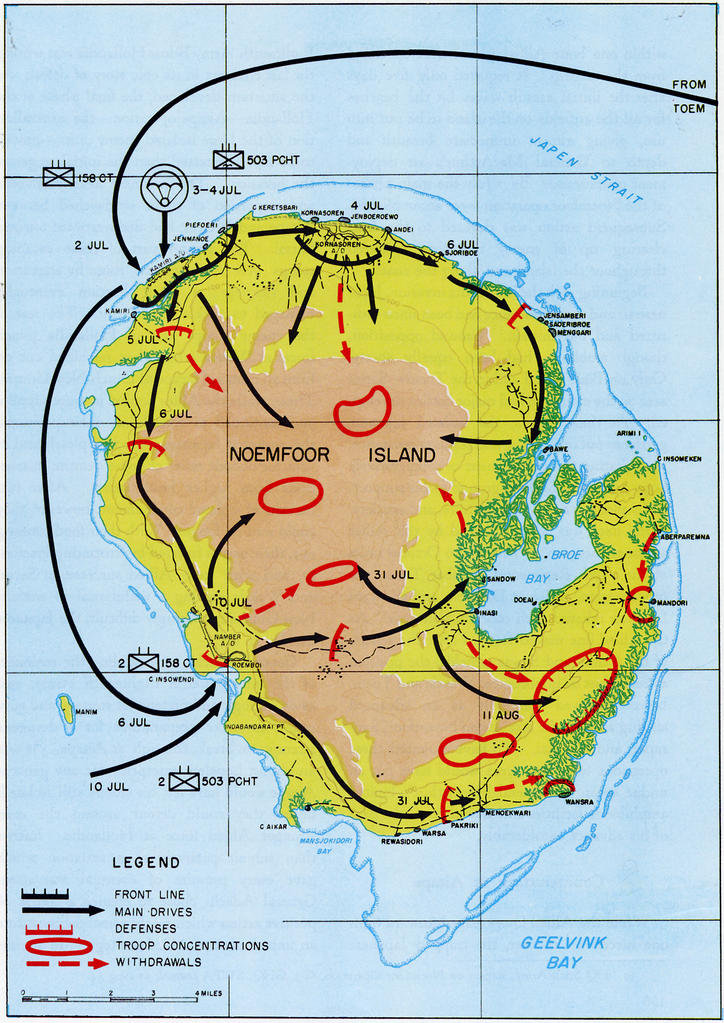 Noemfoor Island Operation, 2 July-31 August 1944